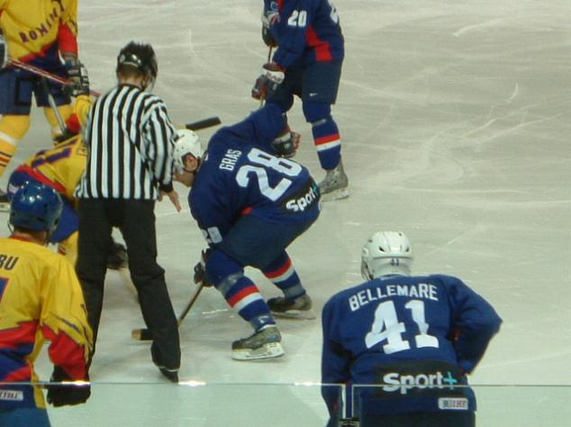 Pierre-Edouard Bellemare et Laurent Gras, french ice hockey players with team France. Olympic qualification in Briançon, France, november 2004.